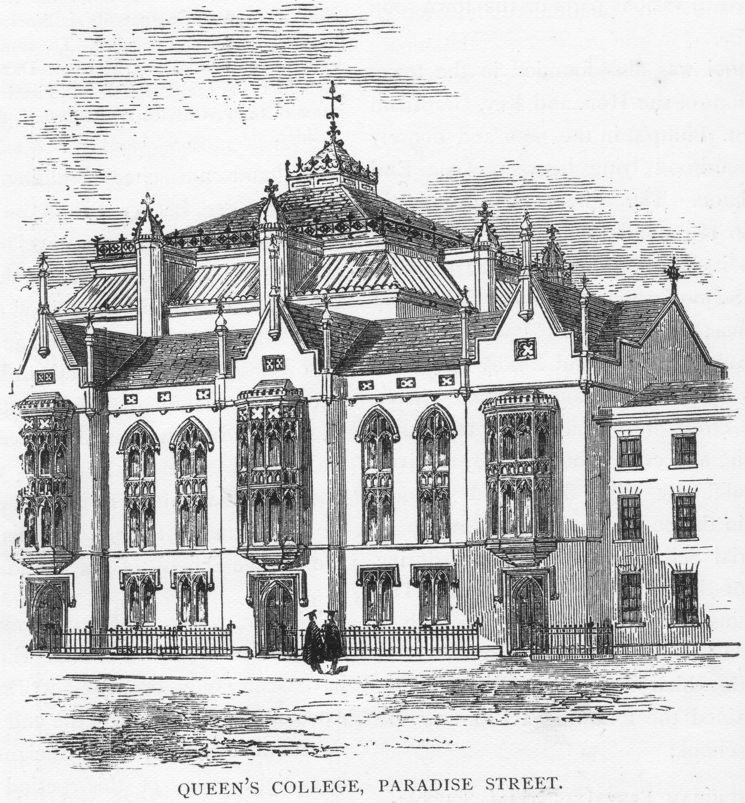 The first buildings of Queen's College in Paradise Street, Birmingham, England.